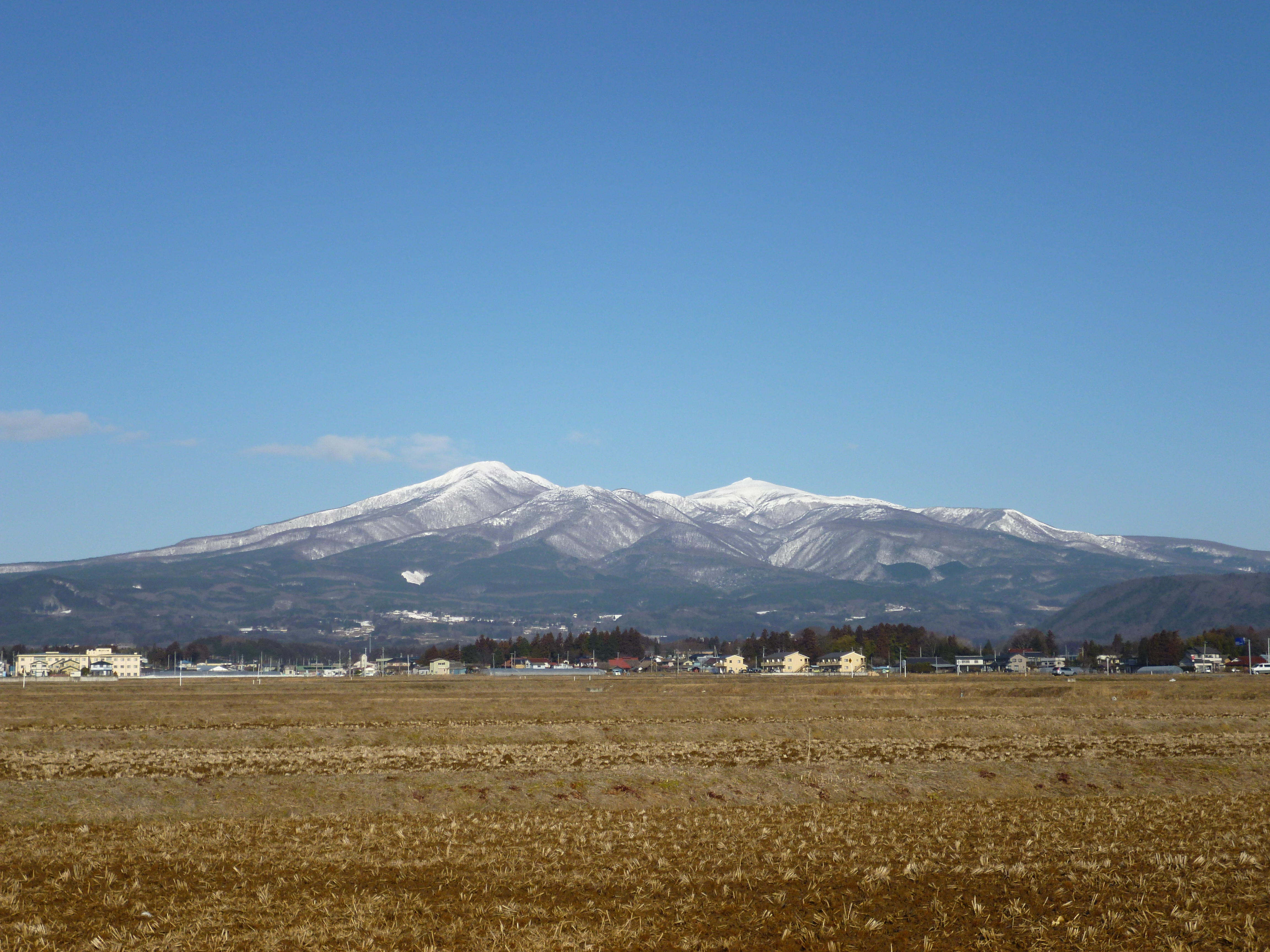 Mount Adatara seen from the southeast, in Fukushima Prefecture, Japan. A view from the village office neighborhood in Ōtama, Fukushima.